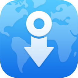 Main Logo for Installer 5.0